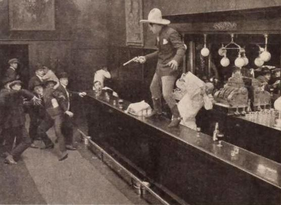 Still from the American western film Western Blood (1918) with Tom Mix, on page 27 of the May 4, 1918 Exhibitors Herald.